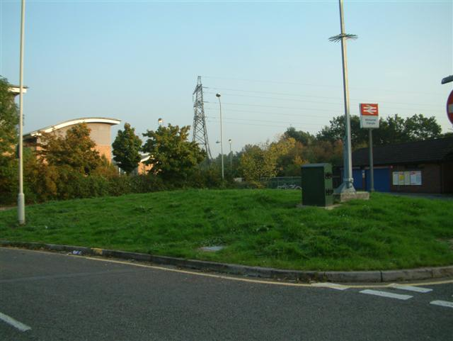 Winnersh Triangle Railway Station.